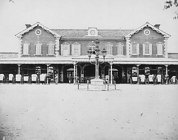 Osaka Station in the Meiji era